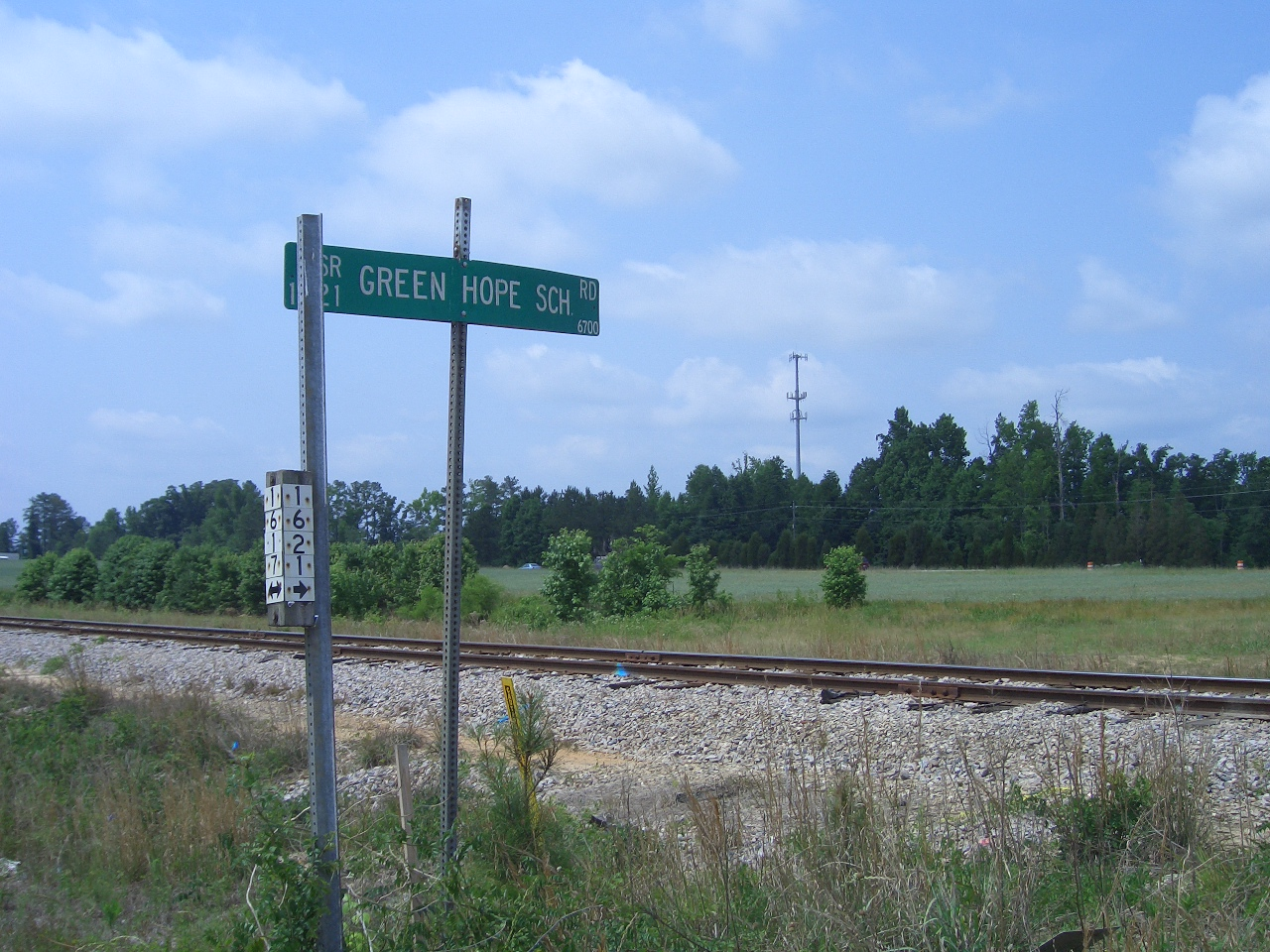 This photograph, taken on 2 June 2006, shows the location of the old Green Hope School. Now, only a railroad track, abandoned field, and some construction rubble remain.